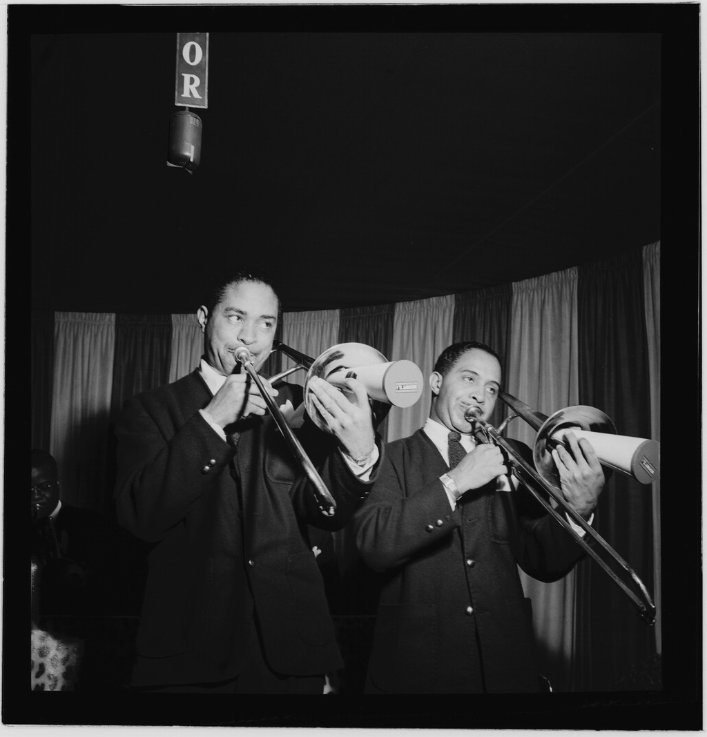 Dicky Wells and Henry Wells, Eddie Condon's, New York, N.Y., ca. Jan. 1947 (Photograph by William P. Gottlieb)